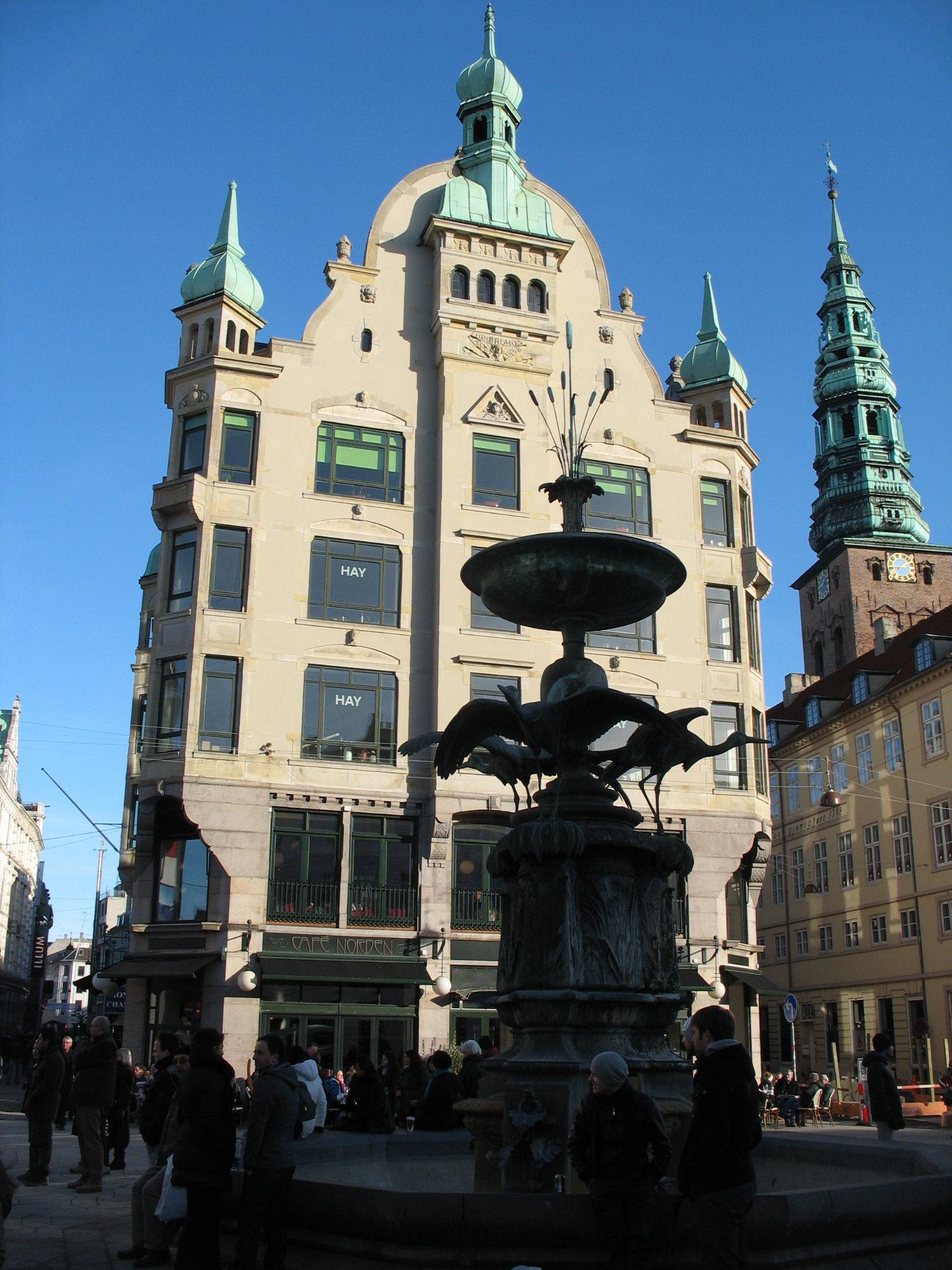 The gable of Højbrohus with Storkespringvandet in the foreground at Amagertorv in Copenhagen, Denmark